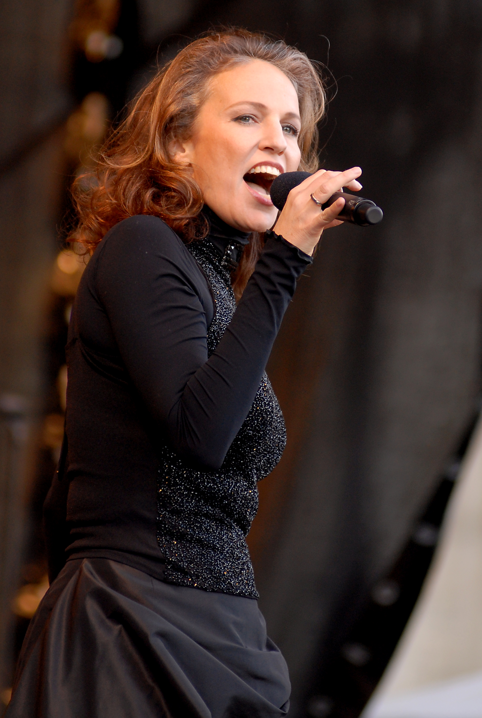 Susan Rigvava-Dumas on stage in front of the Vienna City Hall at a musical event of the Vereinigte Bühnen Wien in October 2006